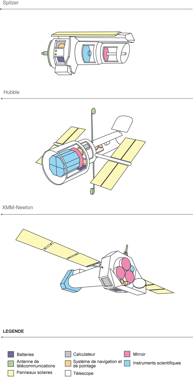 Credits: F. Granato (ESA/Hubble) Category:Hubble Space Telescope images